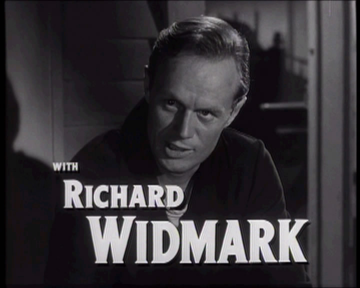 Panic in the Streets is a black and white, 96-minute film directed by Elia Kazan and released in 1950 by 20th Century Fox. It is film noir semidocumentary shot exclusively on location in New Orleans, Louisiana.